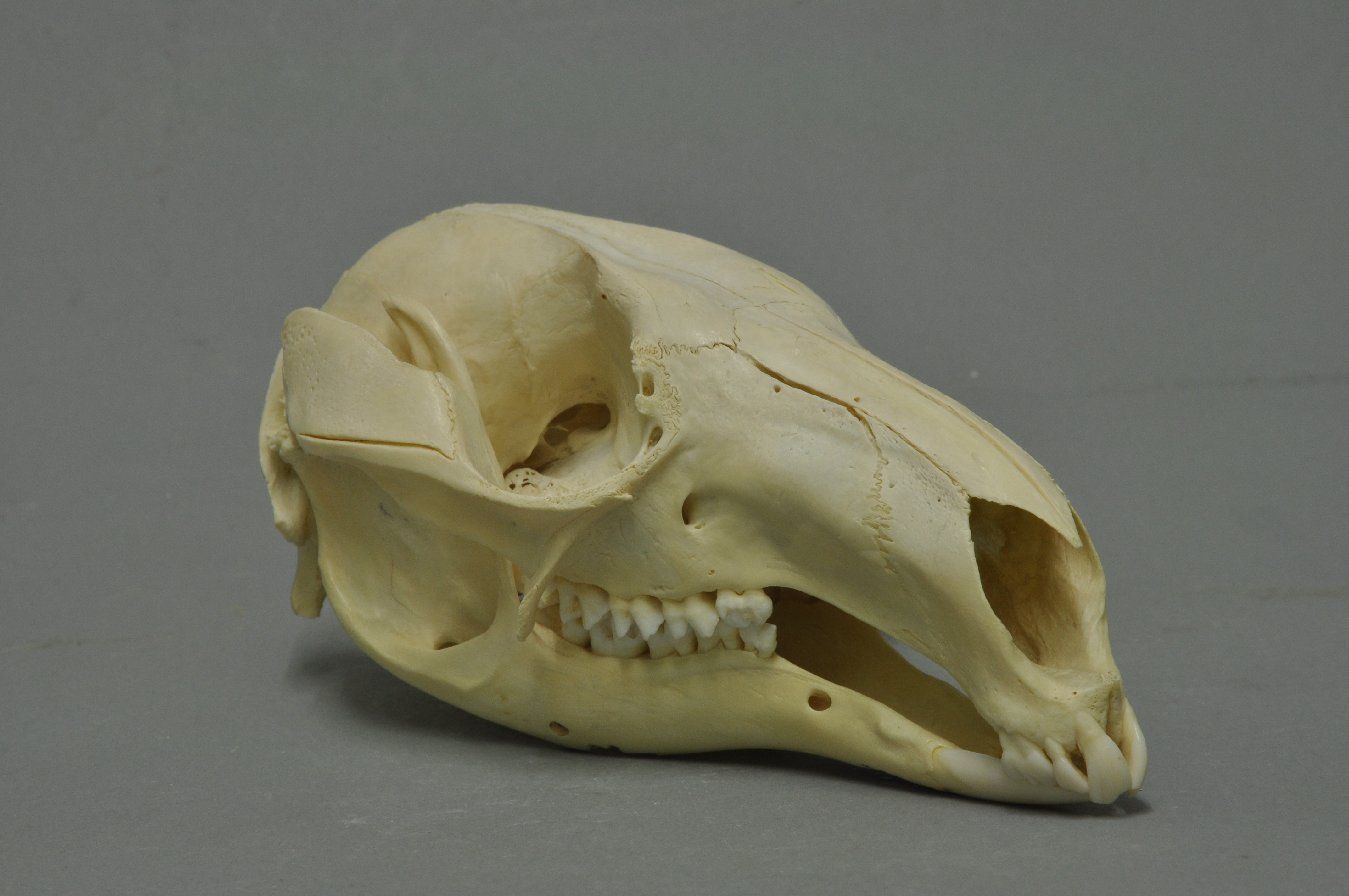 Red-necked wallabyMacropus rufogriseus, skull, Coll. Museum Wiesbaden